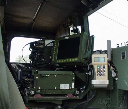 Force XXI Battle Command Brigade and Below FBCB2 computer and display in a Humvee